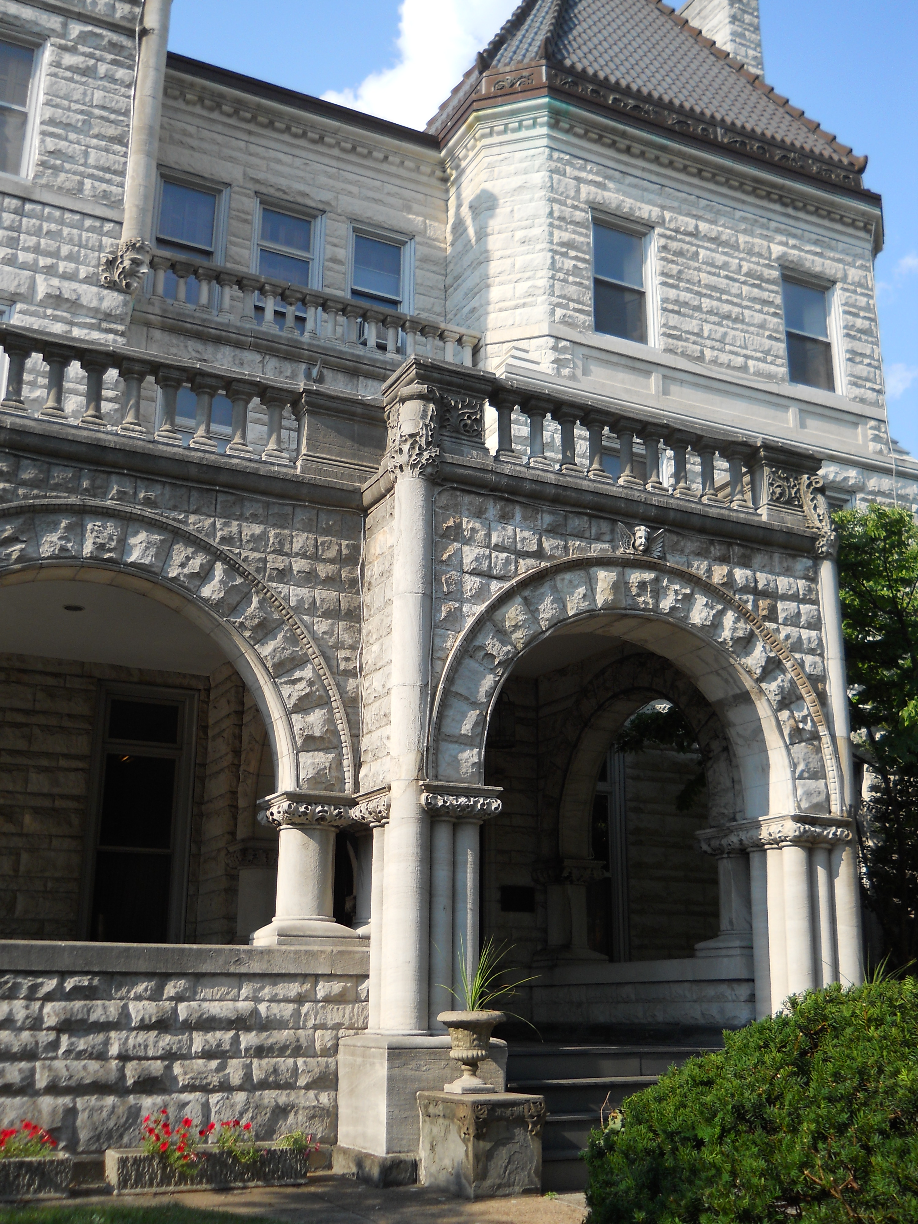 Philadelphia Ronald McDonald House, Chestnut St, West Philadephia.